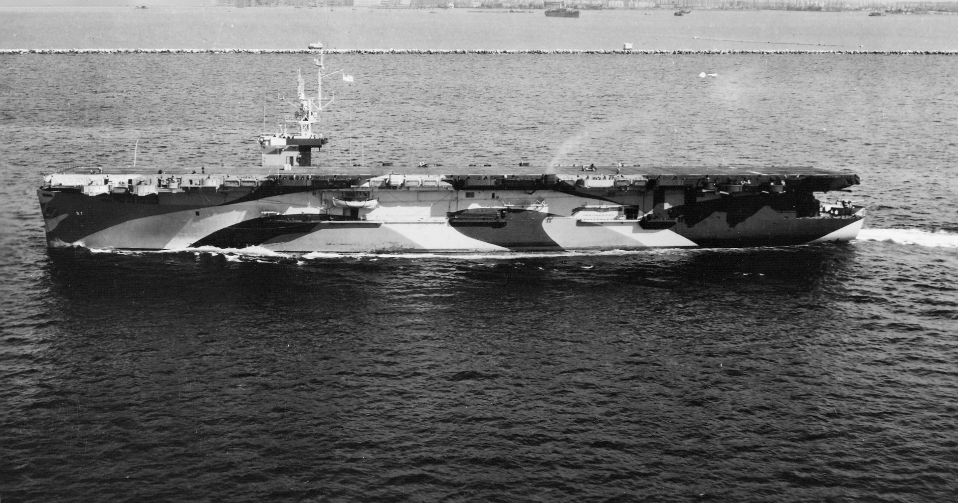 USS Hollandia (CVE-97) underway, circa 1944. She is painted in Camouflage Measure 32, Design 16A.